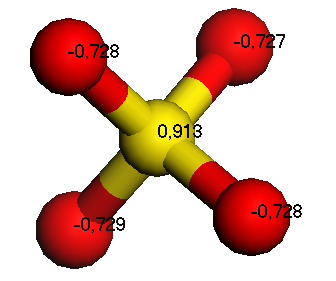 Sulphate Ion with Mulliken Charges.